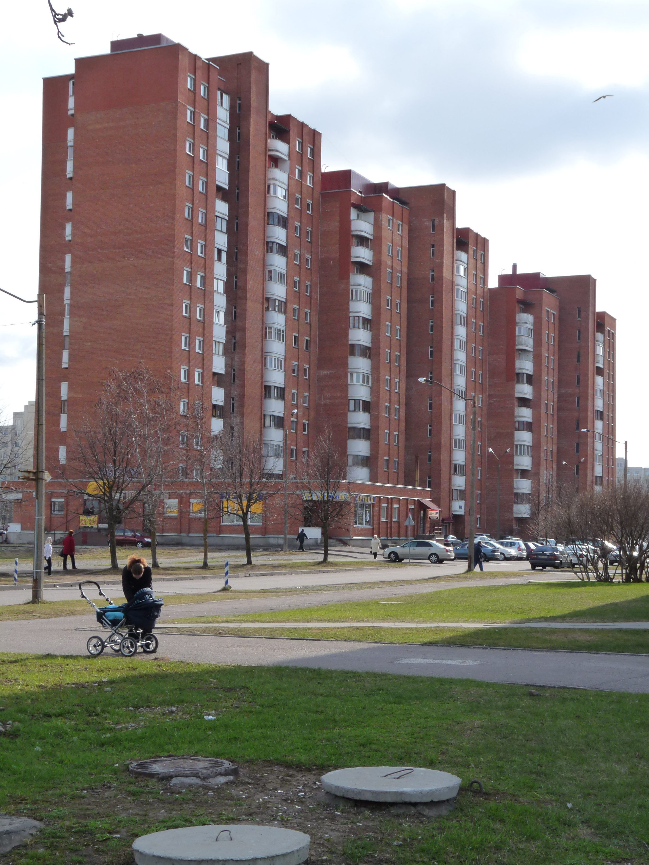 Brick apartment building in Virbi street. Red brick buildings are rare in Lasnamäe.